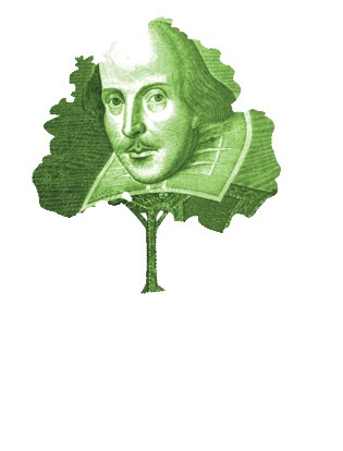 The official logo of the Woodward Shakespeare Festival